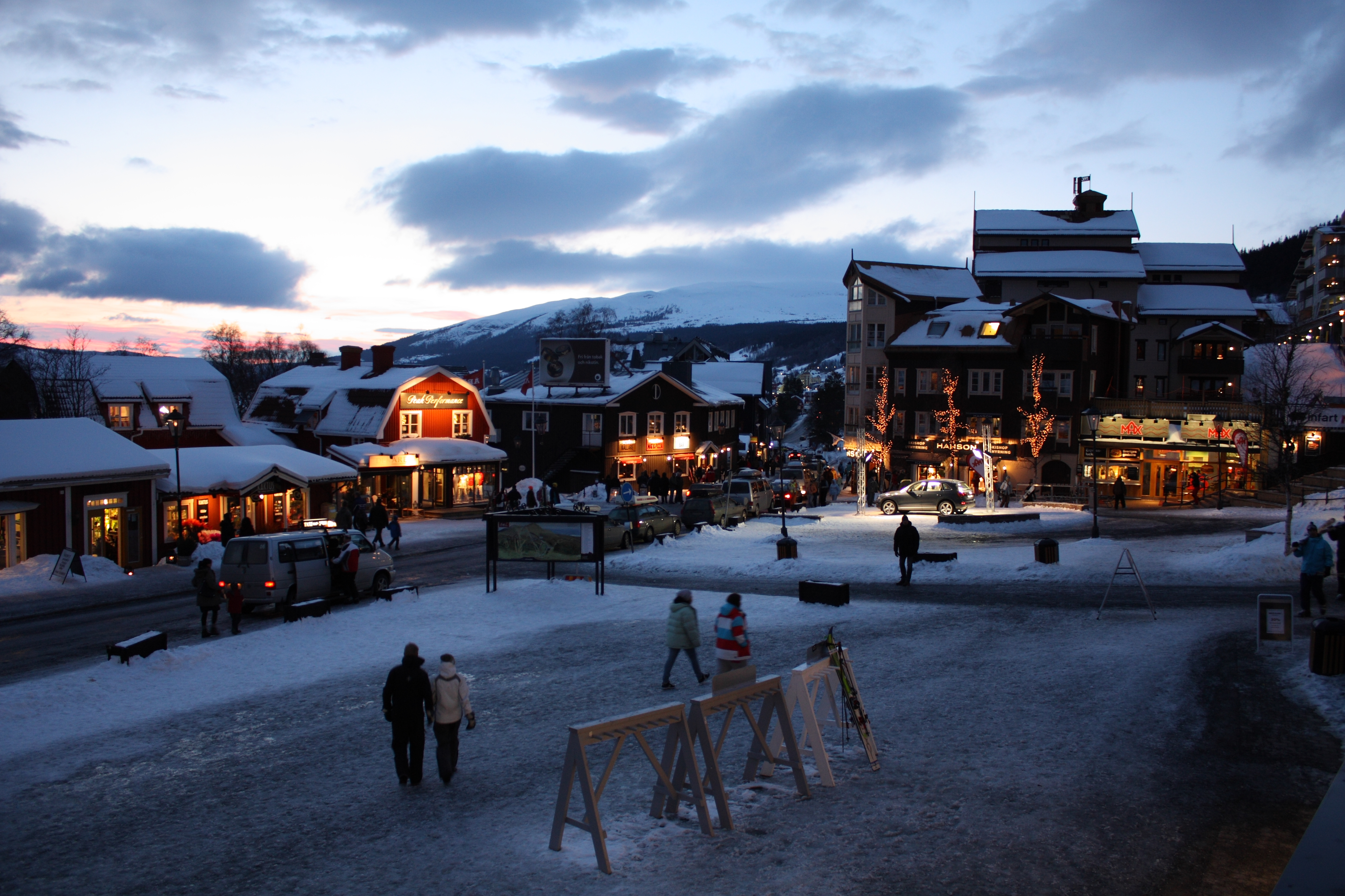 Åre square at sunset.